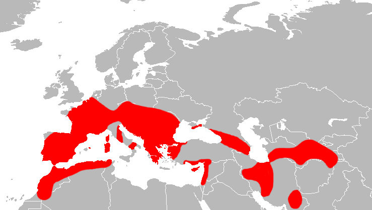 Distribution map of Myotis emarginatus.